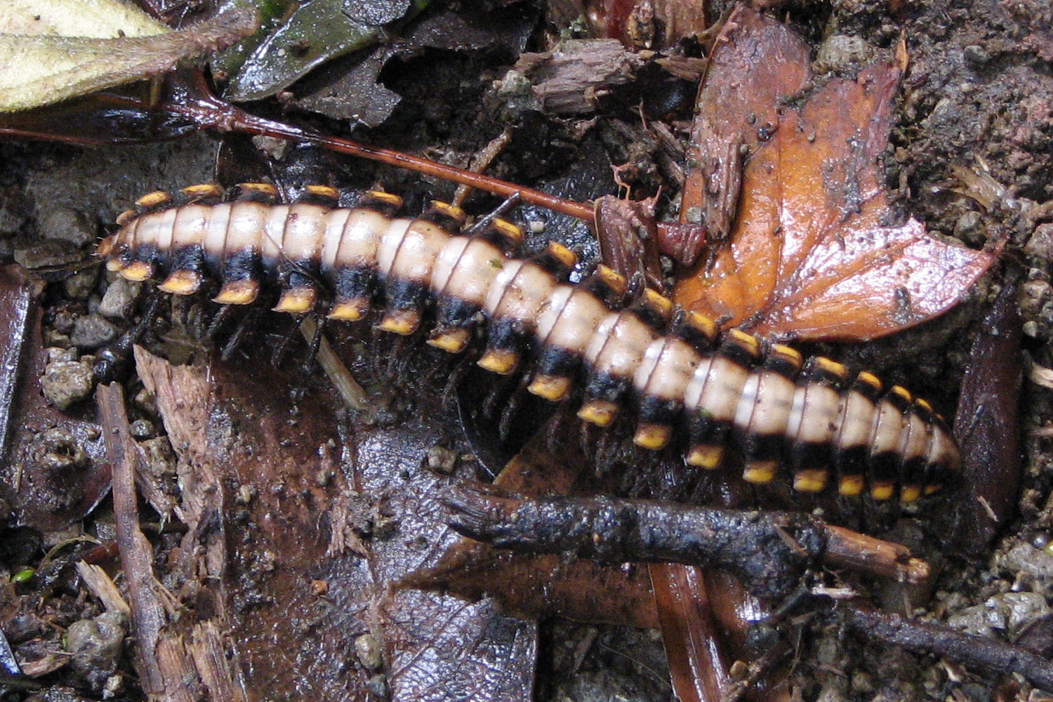 Python Millipede (Nyssodesmus python), Monteverde rainforest, Costa Rica